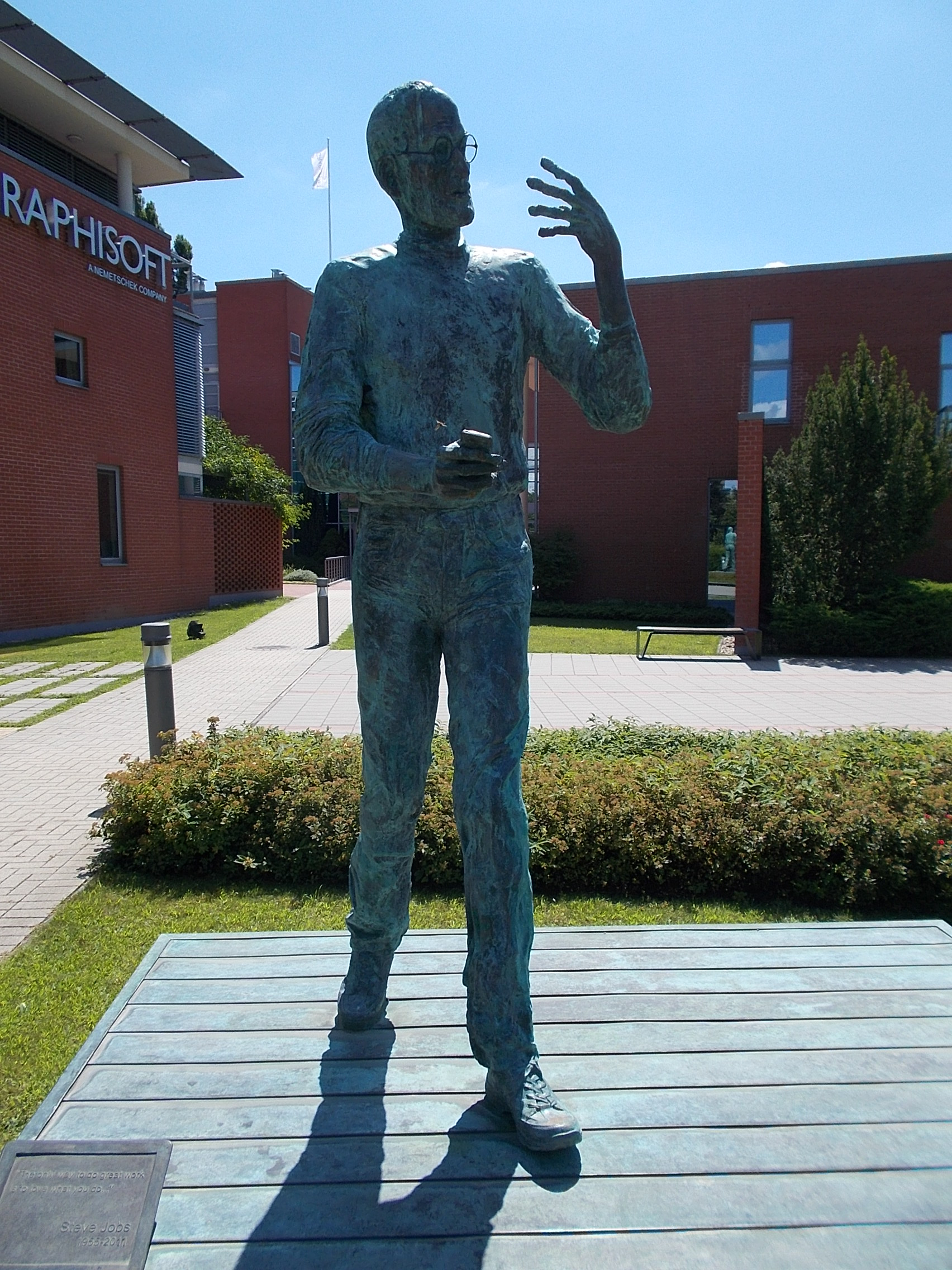 Graphisoft Park, Steve Jobs statue by Ernő Tóth. - Budapest District III.